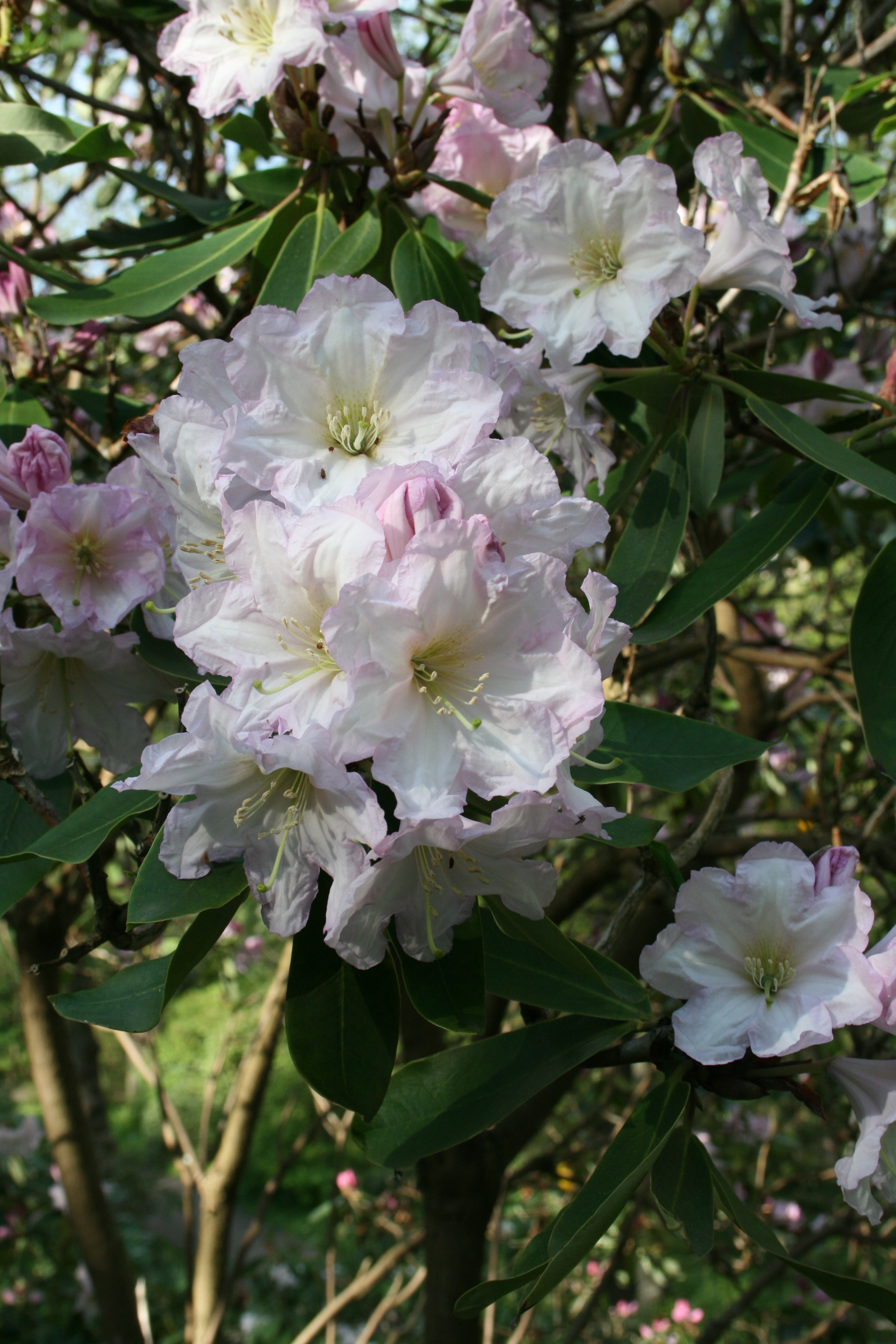 Rhododendron fortunei'